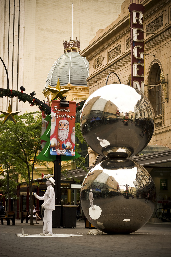 Vintage look attempt. Spheres at Rundle Mall, Adelaide